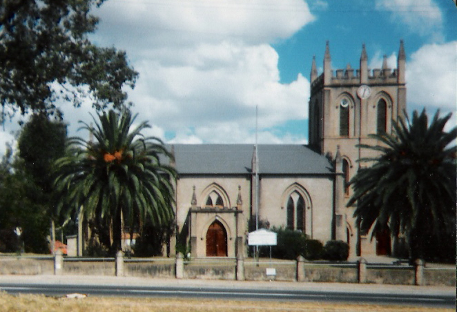 Private amateur photo taken in January 1982 of historic St. Stephen's Church, Penrith, New South Wales. No copytright.